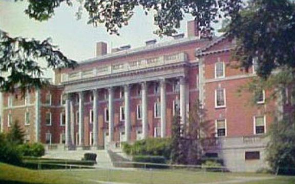 Syracuse University - Maxwell School of Citizenship